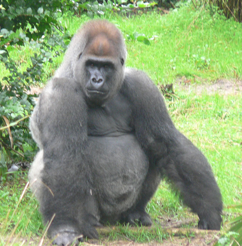 A male silverback Gorilla.